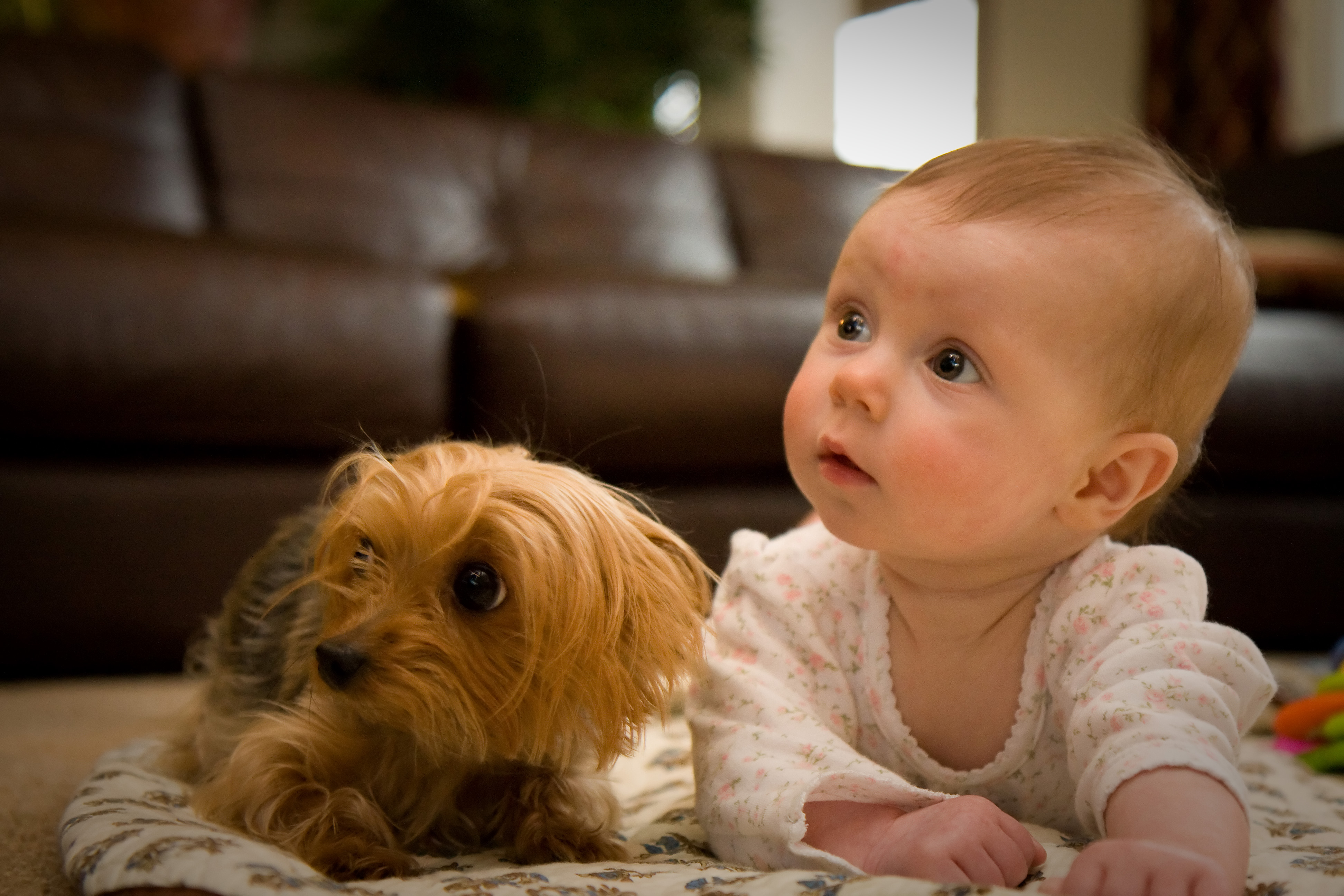 Lisa (the Yorkie), is actually 5 years older than Molly and very protective of her